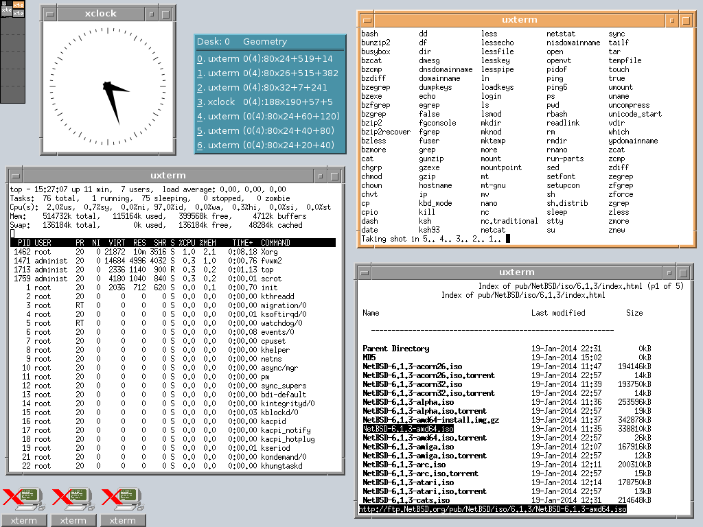 FVWM emulating the look of the Common Desktop Environment (CDE), using the "FVWM-min" package. Running on Debian GNU/Linux.